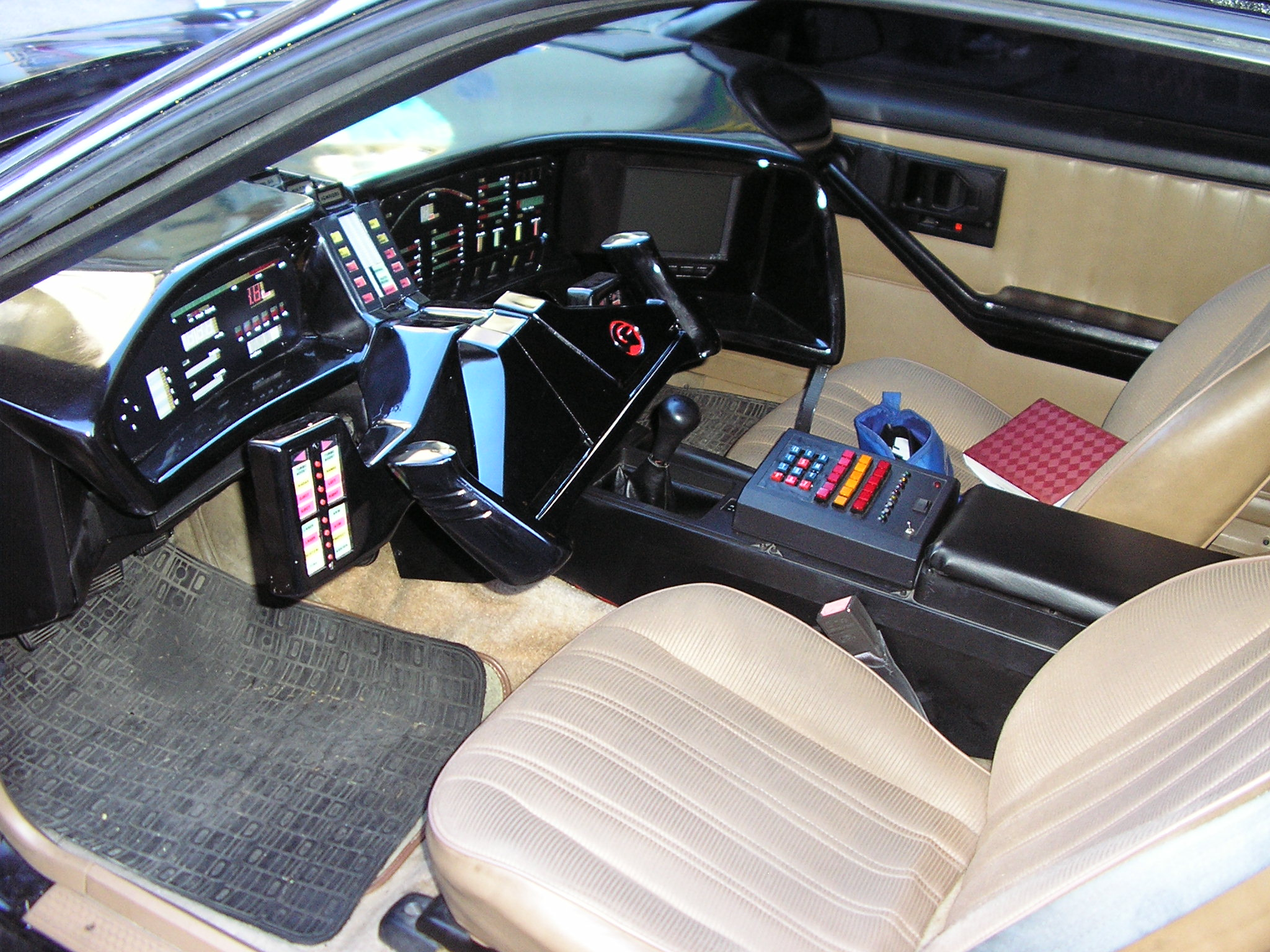 Photo of a my friend replica taken by myself. Arroww